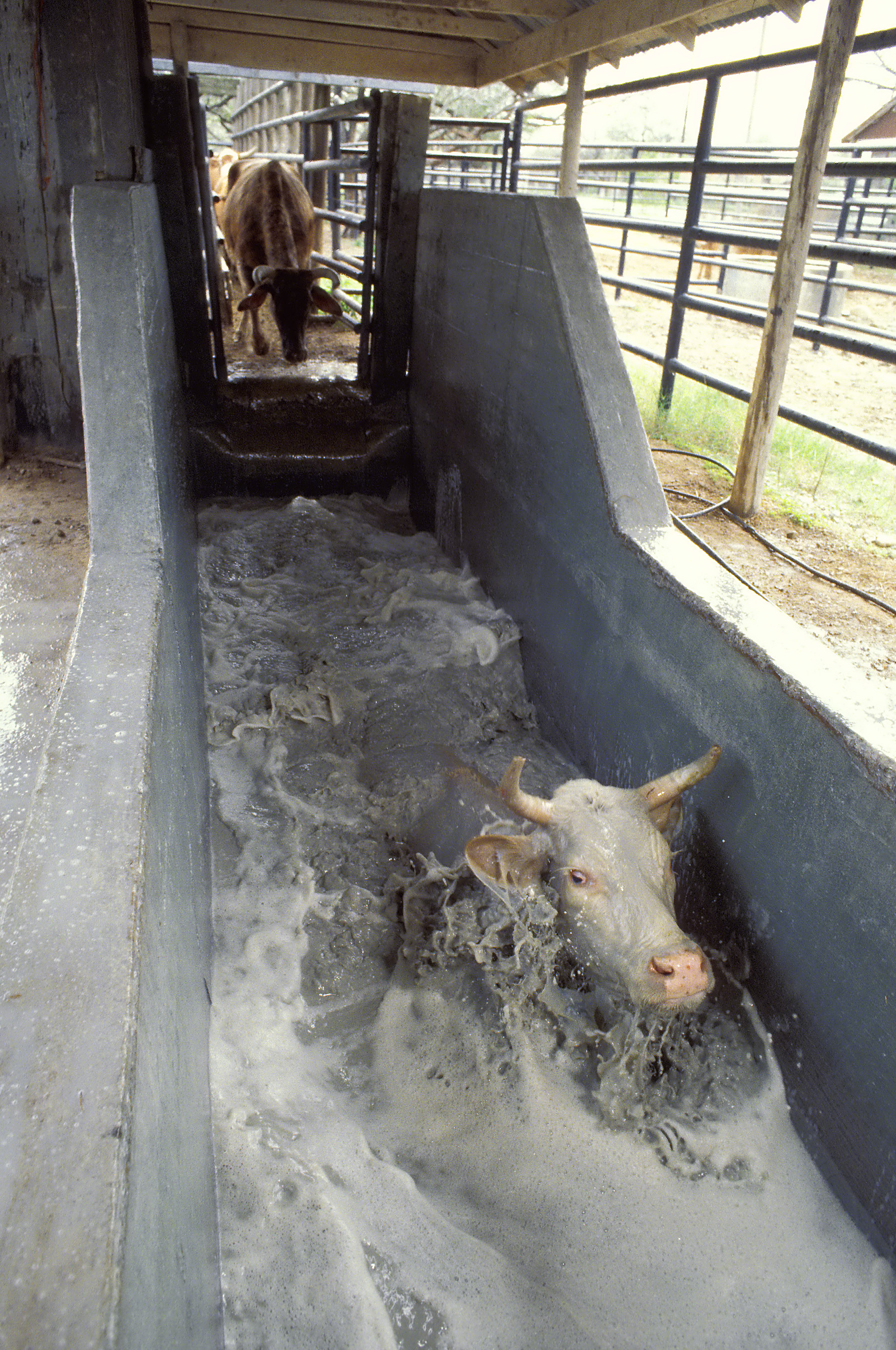 After a 36-year campaign, cattle fever ticks were finally declared eradicated from the United States in 1943. Today, the only remaining area where these ticks are found is a narrow strip of land along the Texas-Mexico border that has been quarantined since 1938. These cattle are going through a tick treatment bath at an APHIS facility in McAllen, Texas.